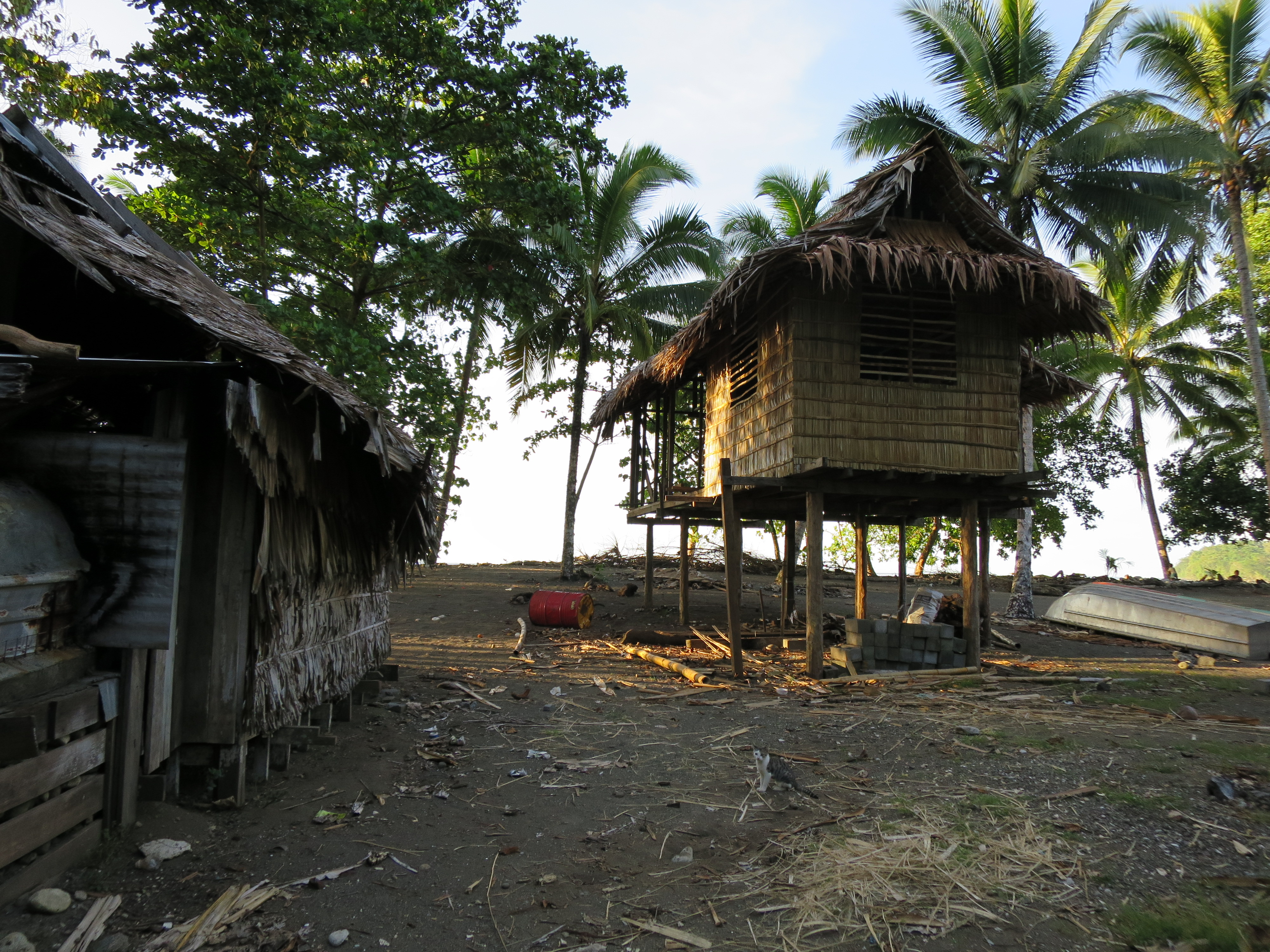 This is a photograph of some of the local houses in Kirakira, right next to the beach.